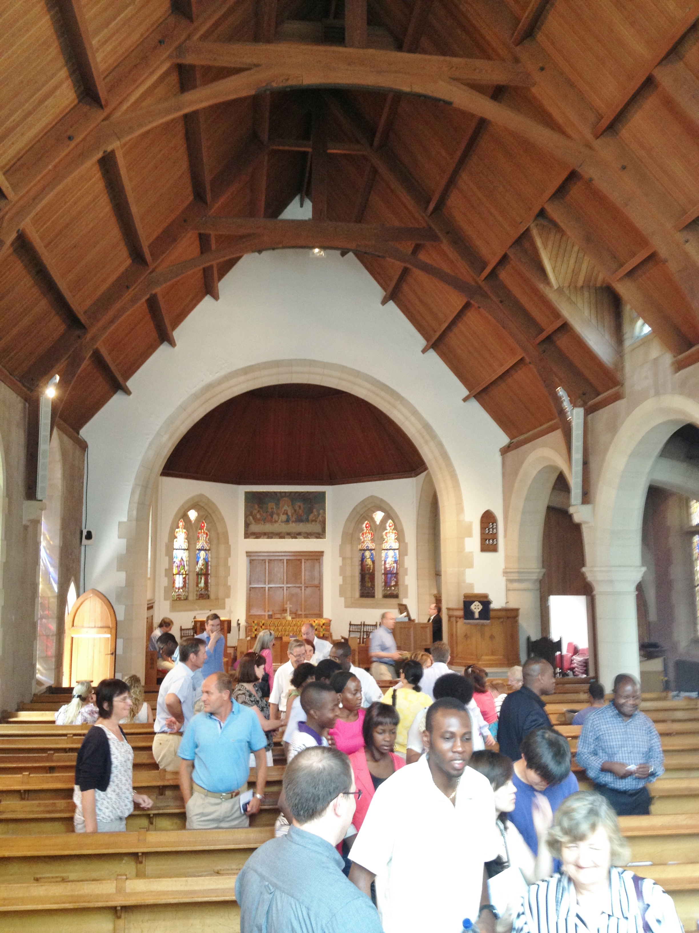 Interior view of St. Andrew's Church, Brussels, Belgium